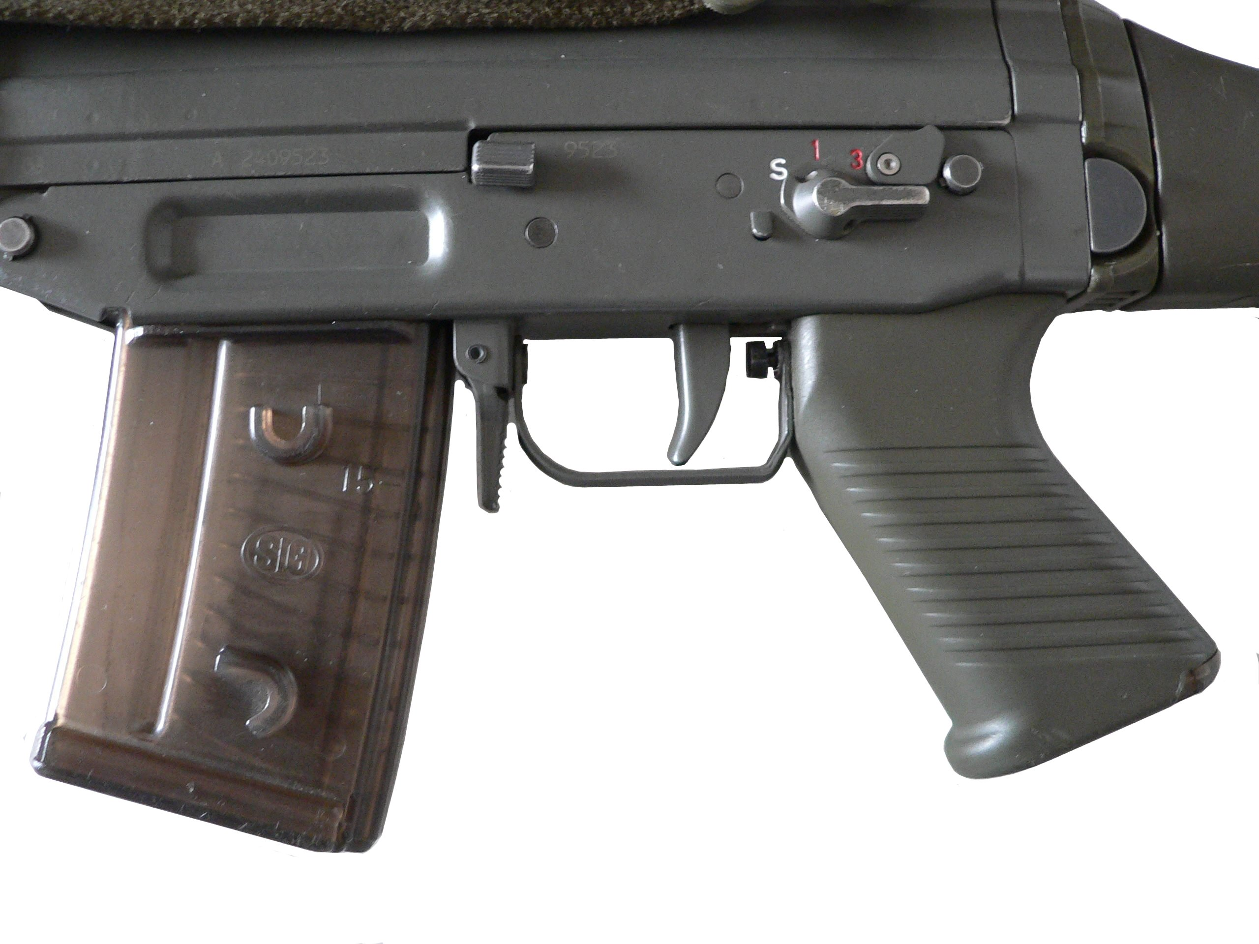 The fire control group of the rifle.